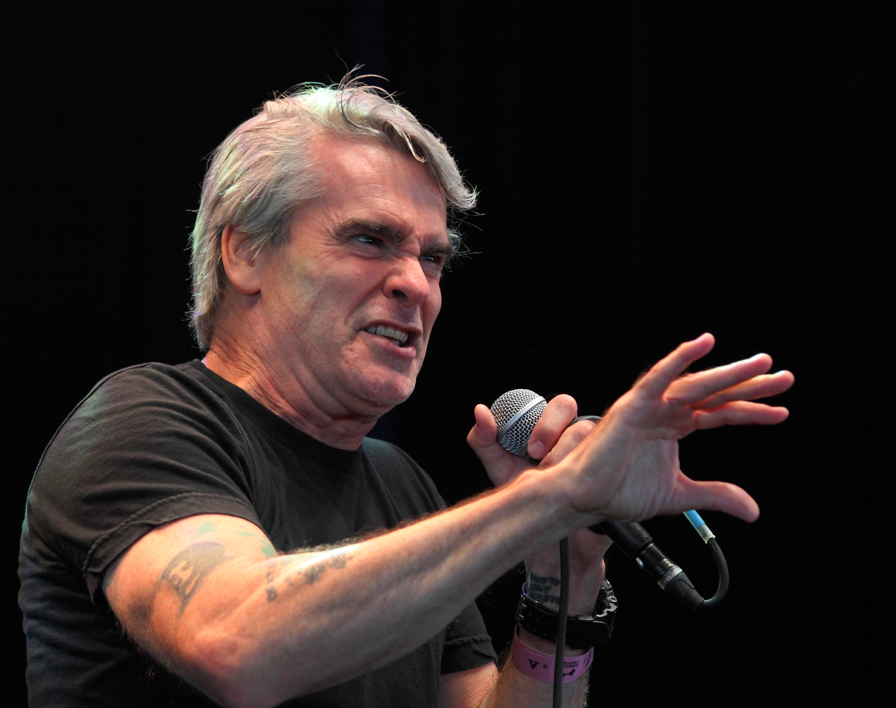 Henry Rollins spoken word at Roskilde Festival 2013